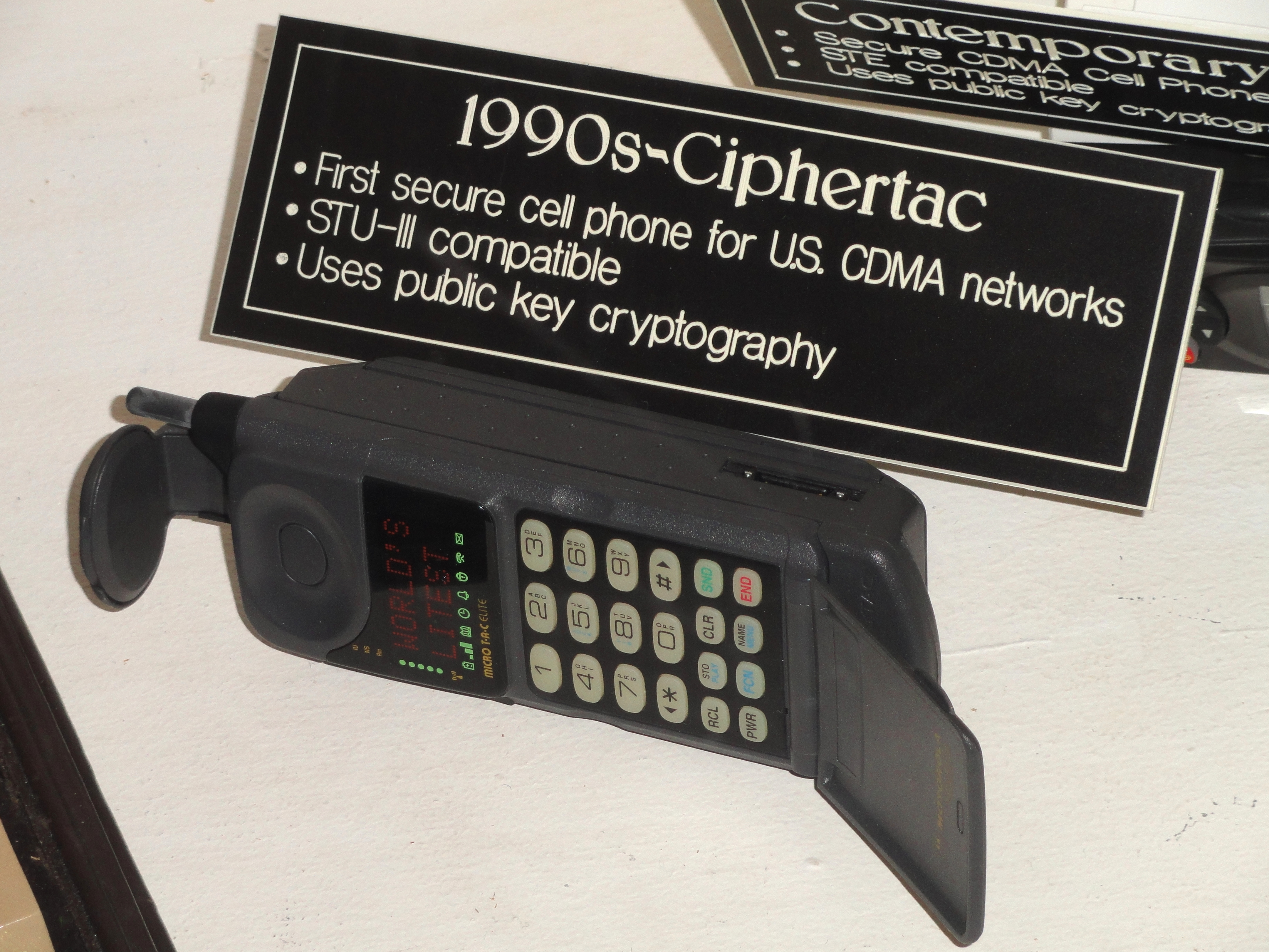 Exhibit in the National Cryptologic Museum, Fort Meade, Maryland, USA. All items in this museum are unclassified; items created by the United States Government are not subject to copyright restrictions.